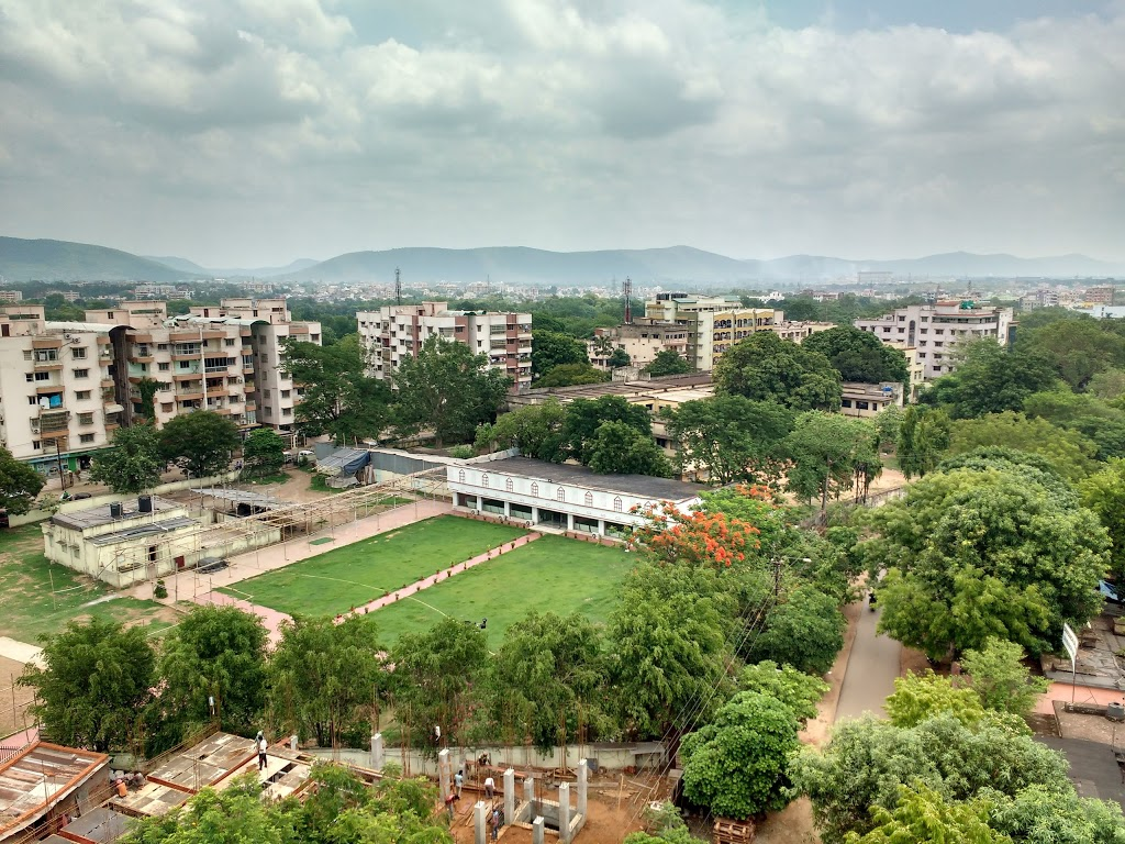 Jamshedpur